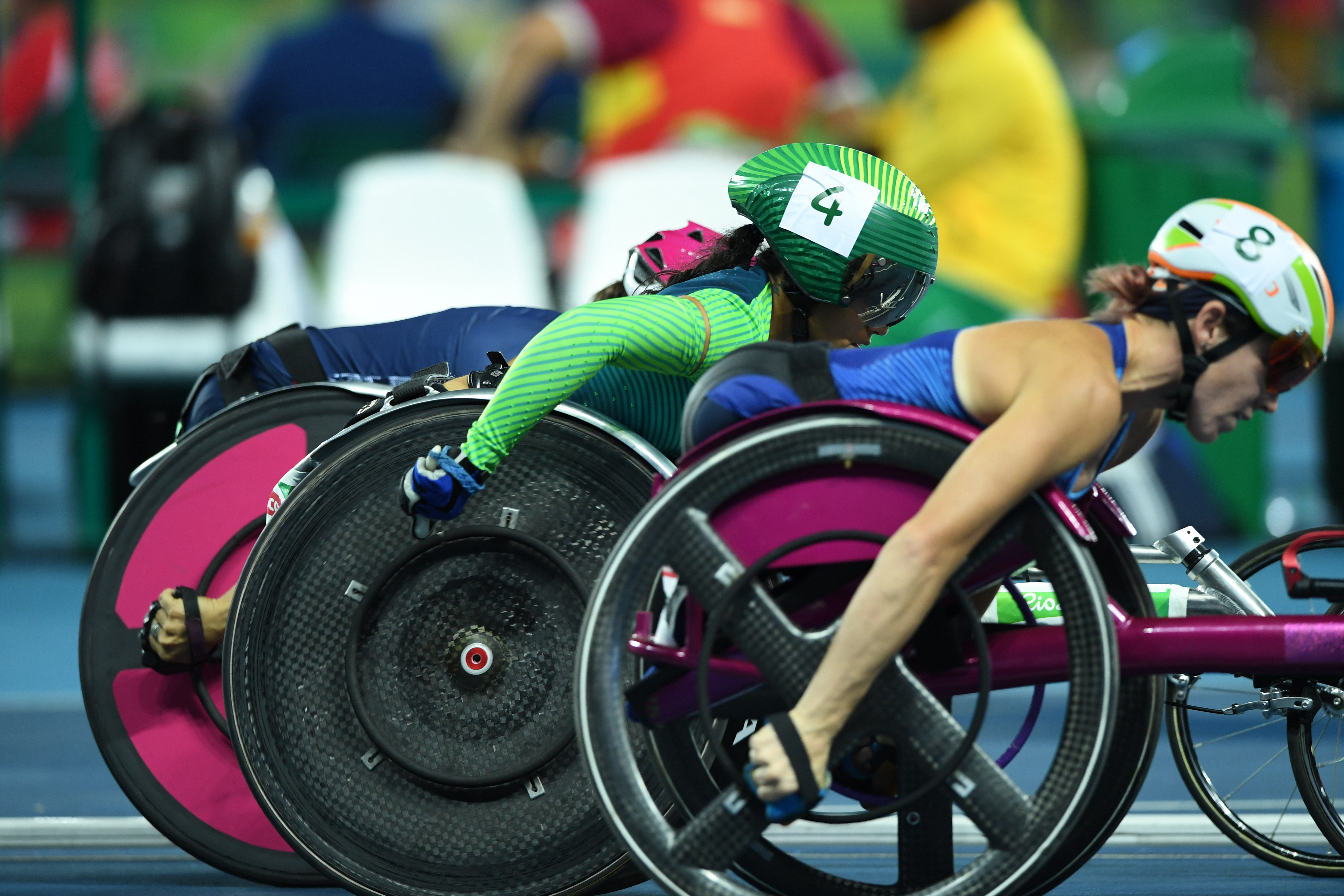 Aline Rocha &Amanda McGrory in Rio de Janeiro - Wheelchair 1500m Women;s Category T54 at the Paralimpics in Rio (Picture by Tomaz Silva/Agência Brasil)